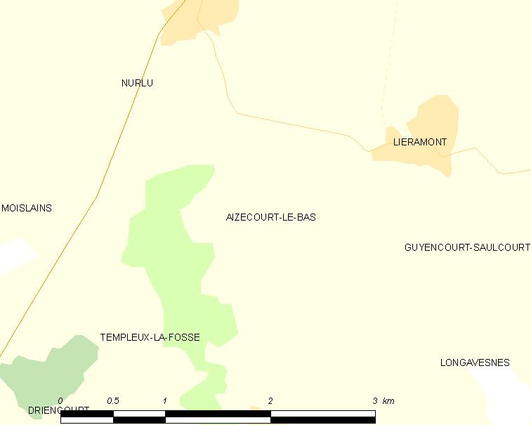 Map of French municipality Aizecourt-le-Bas